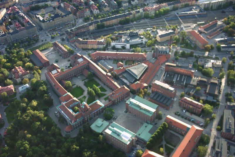 The Royal institute of Technology seen from a hot air balloon in late summer 2003.